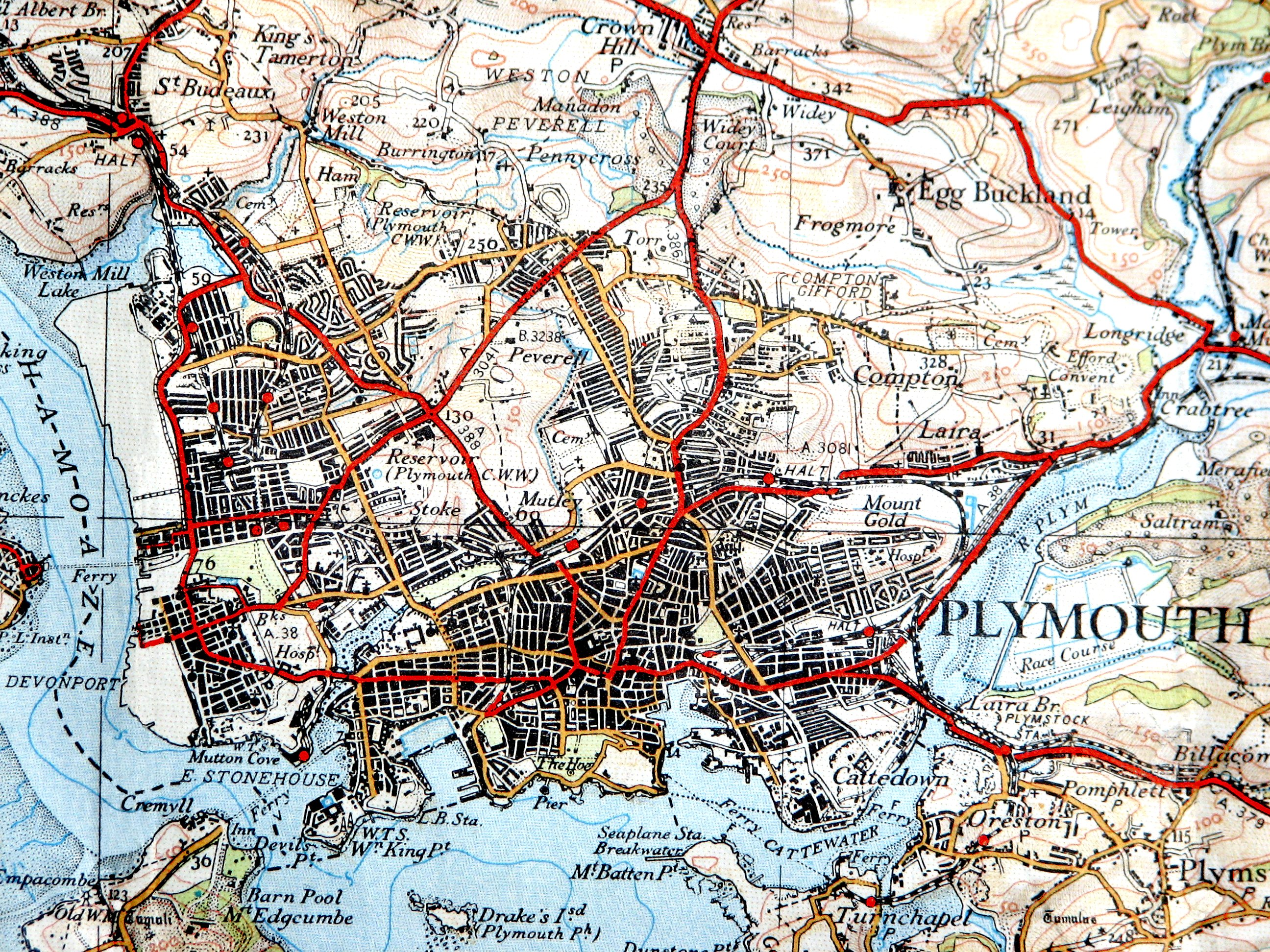 Extract from OS 1" map dated 1936 showing Plymouth, England.